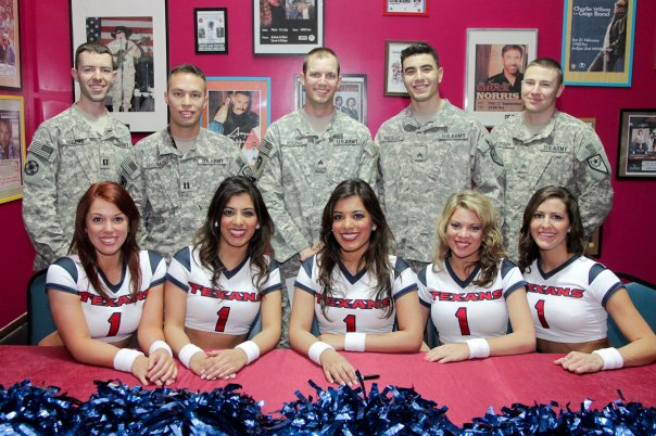 US Soldiers pose with cheerleaders from the Houston Texans football team